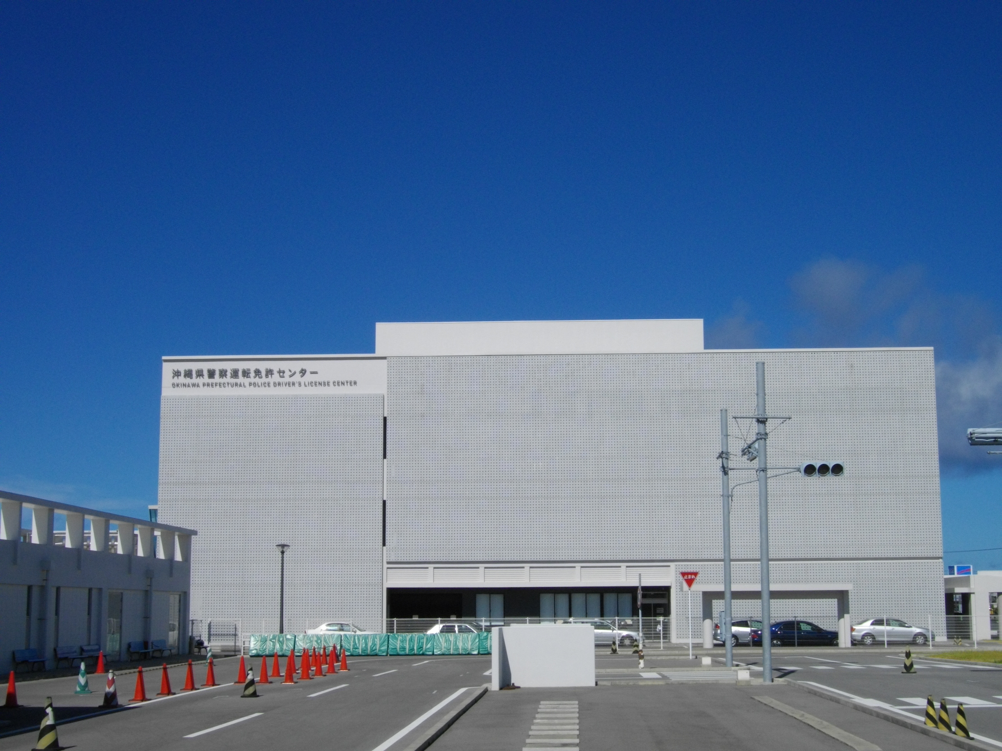 Okinawa Prefectural Police Driver's License Center